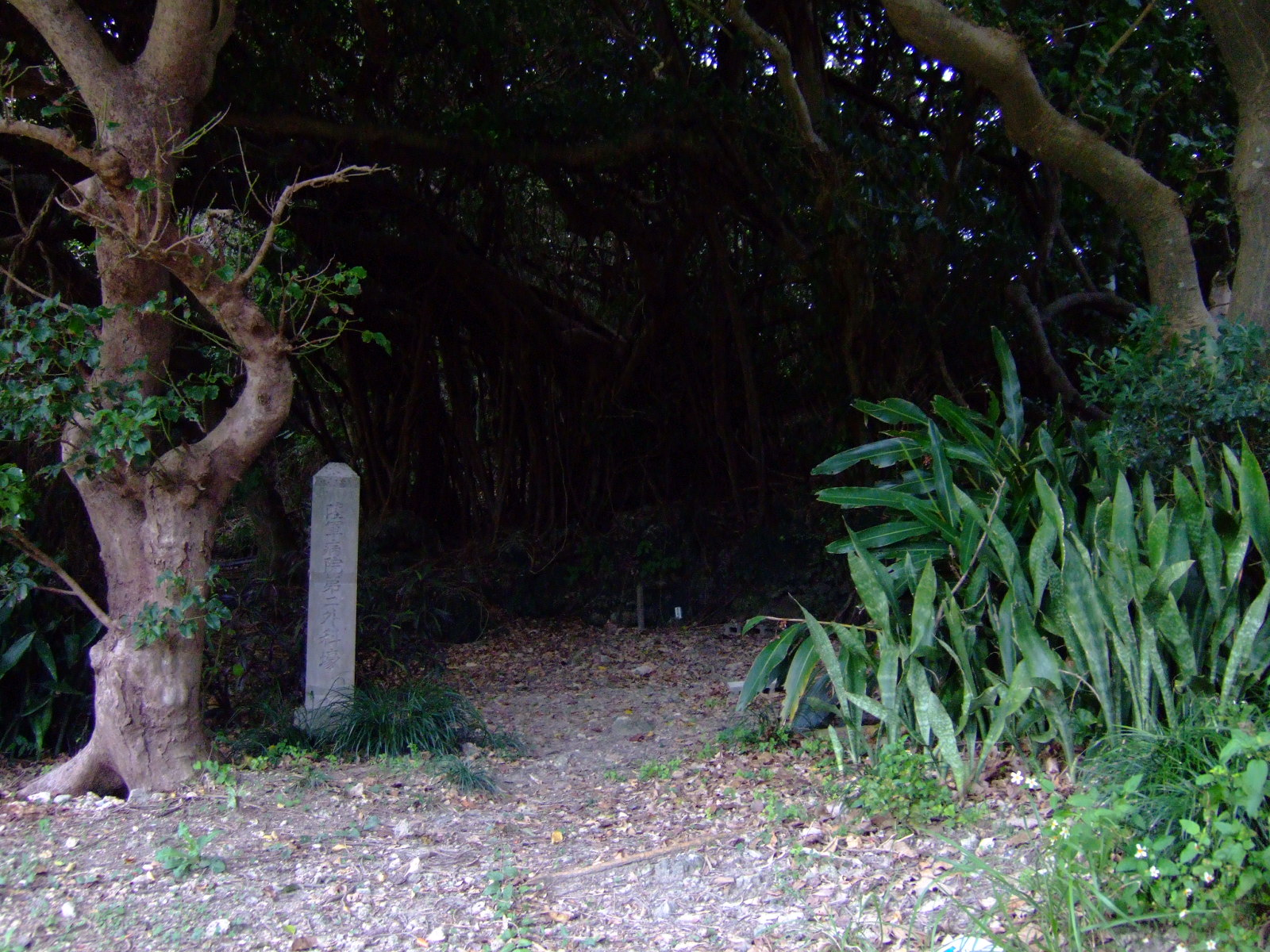 The cave of Okinawa military hospital (dept. of surgery, 2nd div. in Itosu, Itoman, Okinawa Prefecture, Japan)